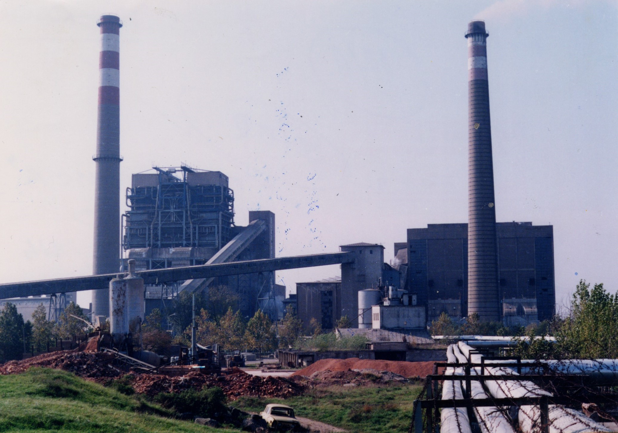 TE Kostolac A, blocks of 100 and 210 MWh.